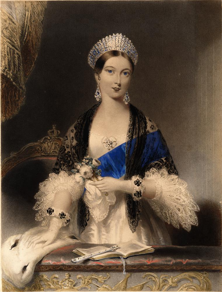 Portrait of Queen Victoria standing in front of her gilt-wood and red upholstered chair at Drury Lane Theatre, 1837